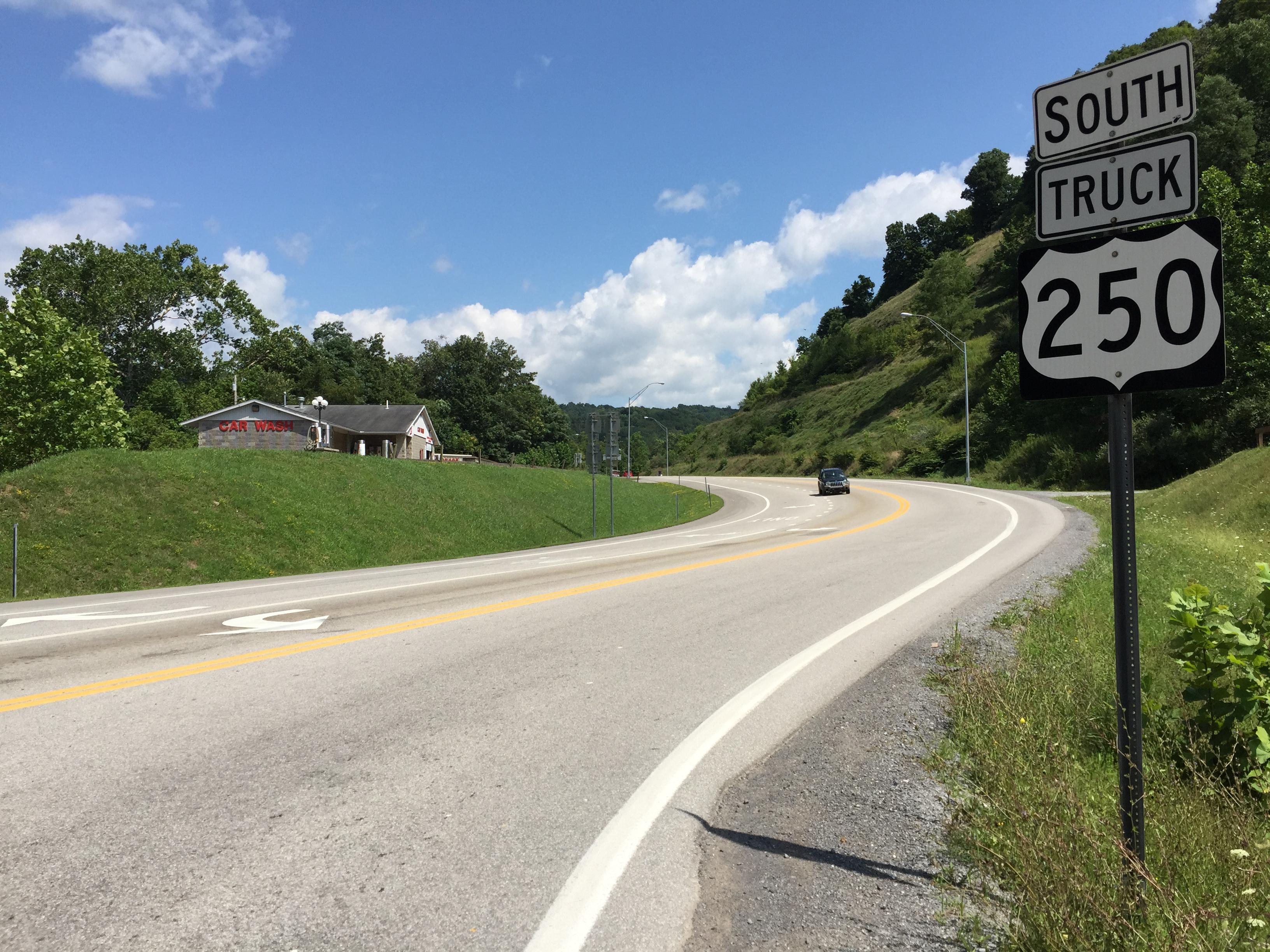 View south along U.S. Route 250 Truck (Blue and Gray Expressway) at U.S. Route 119 (Mansfield Drive) in Philippi, Barbour County, West Virginia